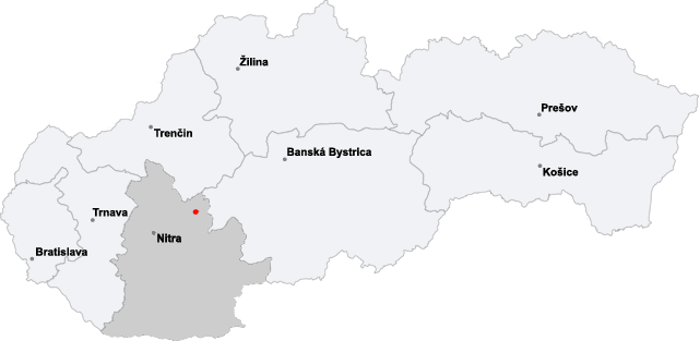 position of village Machulince